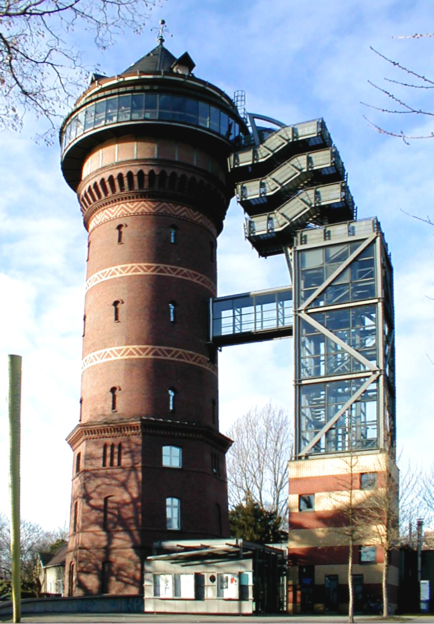 The watermuseum Aquarius